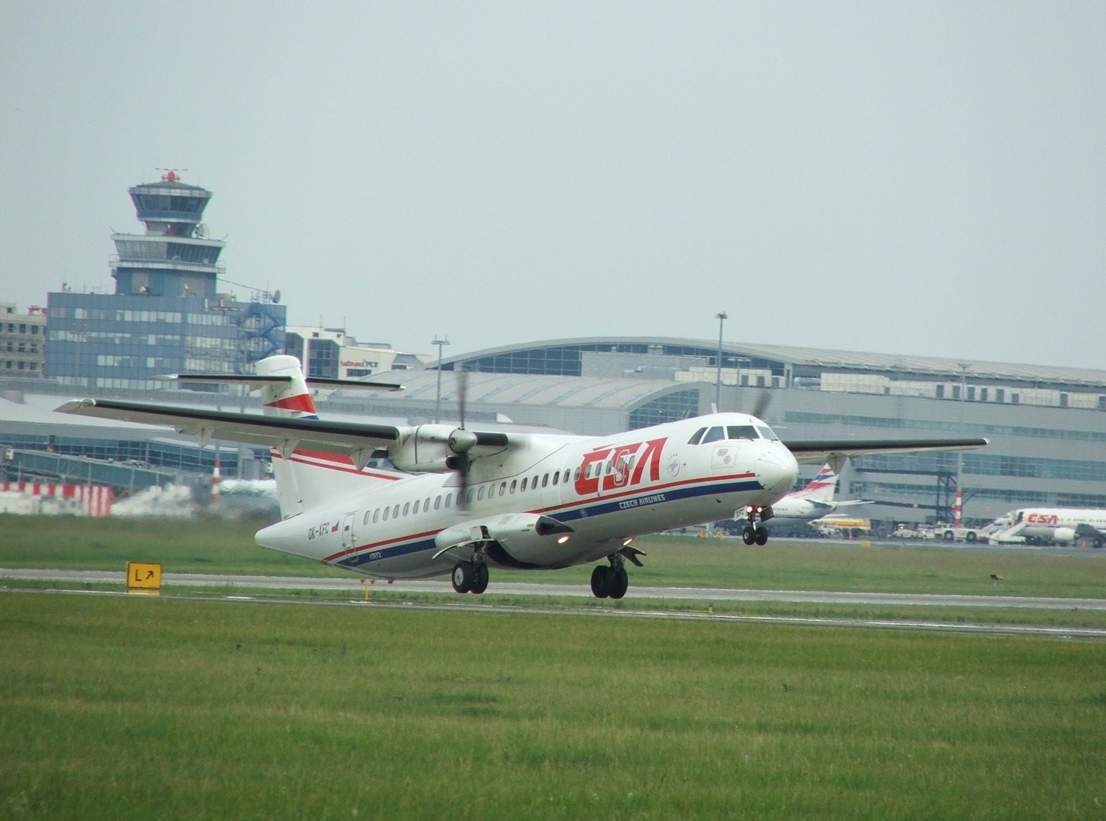 Ruzyně International Airport Prague, an ATR-72 of Czech Airlines.